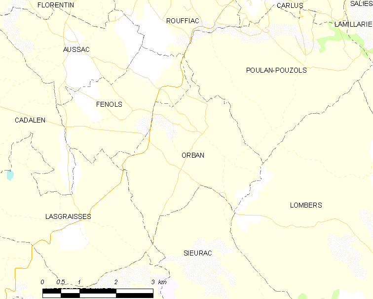 Map of French municipality Orban